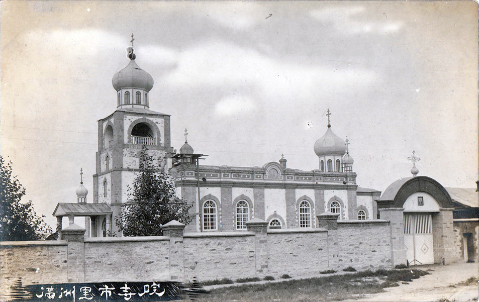 a postcard mailed to Japan in 1928.